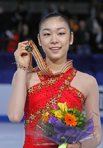 Kim Yu-Na (KOR) during the ladies medals ceremony at the 2009 Four Continents Championships. She won the gold medal at this event.